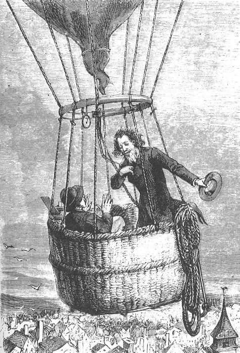 An illustration from Jules Verne's short story "A Drama in the Air" (1851) drawn by Émile-Antoine Bayard.